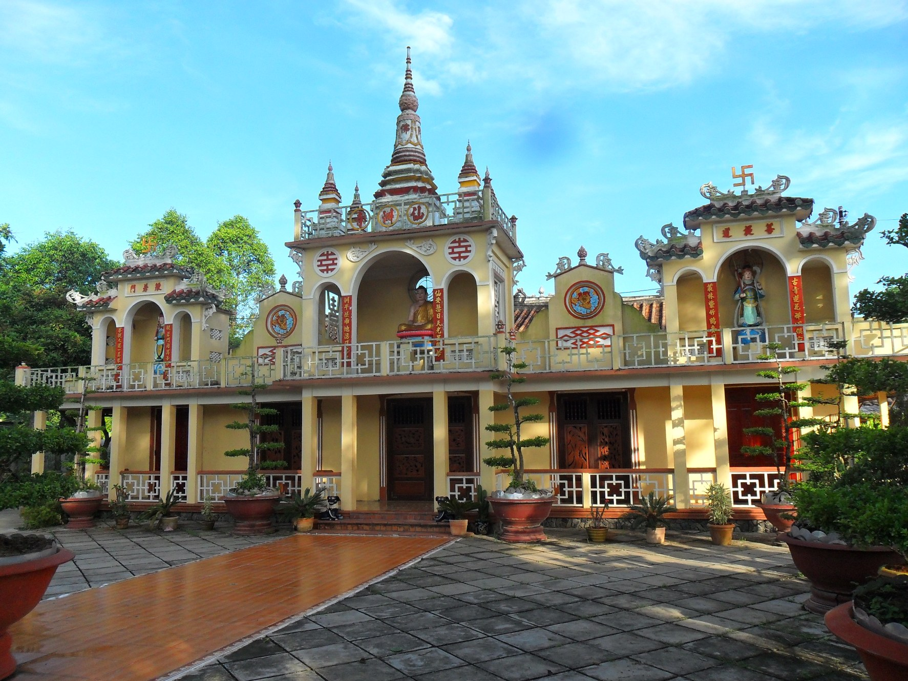 CHUA TIEN CHAU Temple, An Binh Island, Mekong Delta, Vietnam